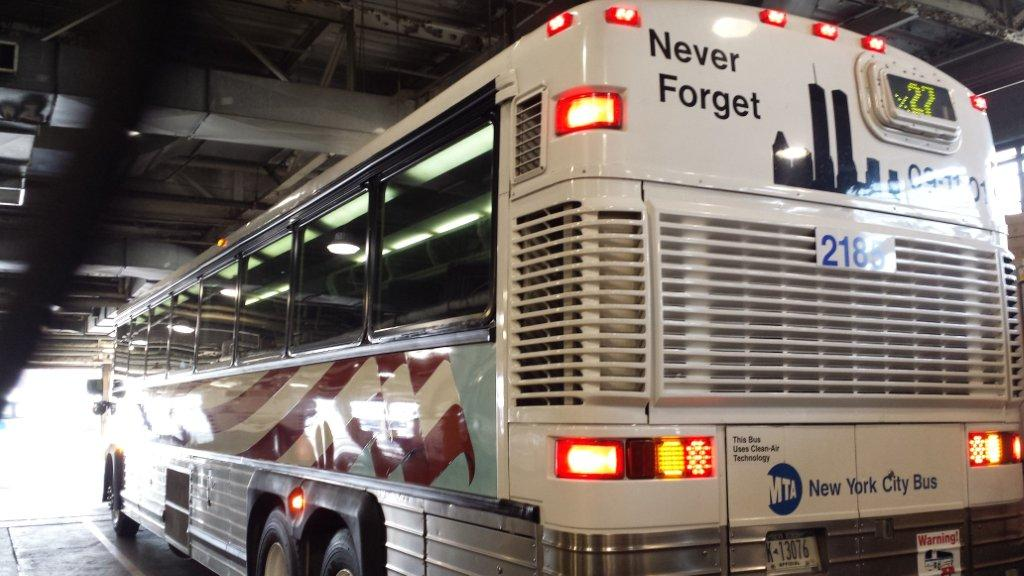 Covered in dust, ash and falling debris on the morning of Sept. 11, 2001, New York City Transit's express coach #2185 could have been written off and sent off to scrap. It was decided, however, to rebuild her as a symbol of NYC Transit’s resiliency and a rolling example of the dedication of the agency’s employees. Photo: Metropolitan Transportation Authority / Kevin Ortiz